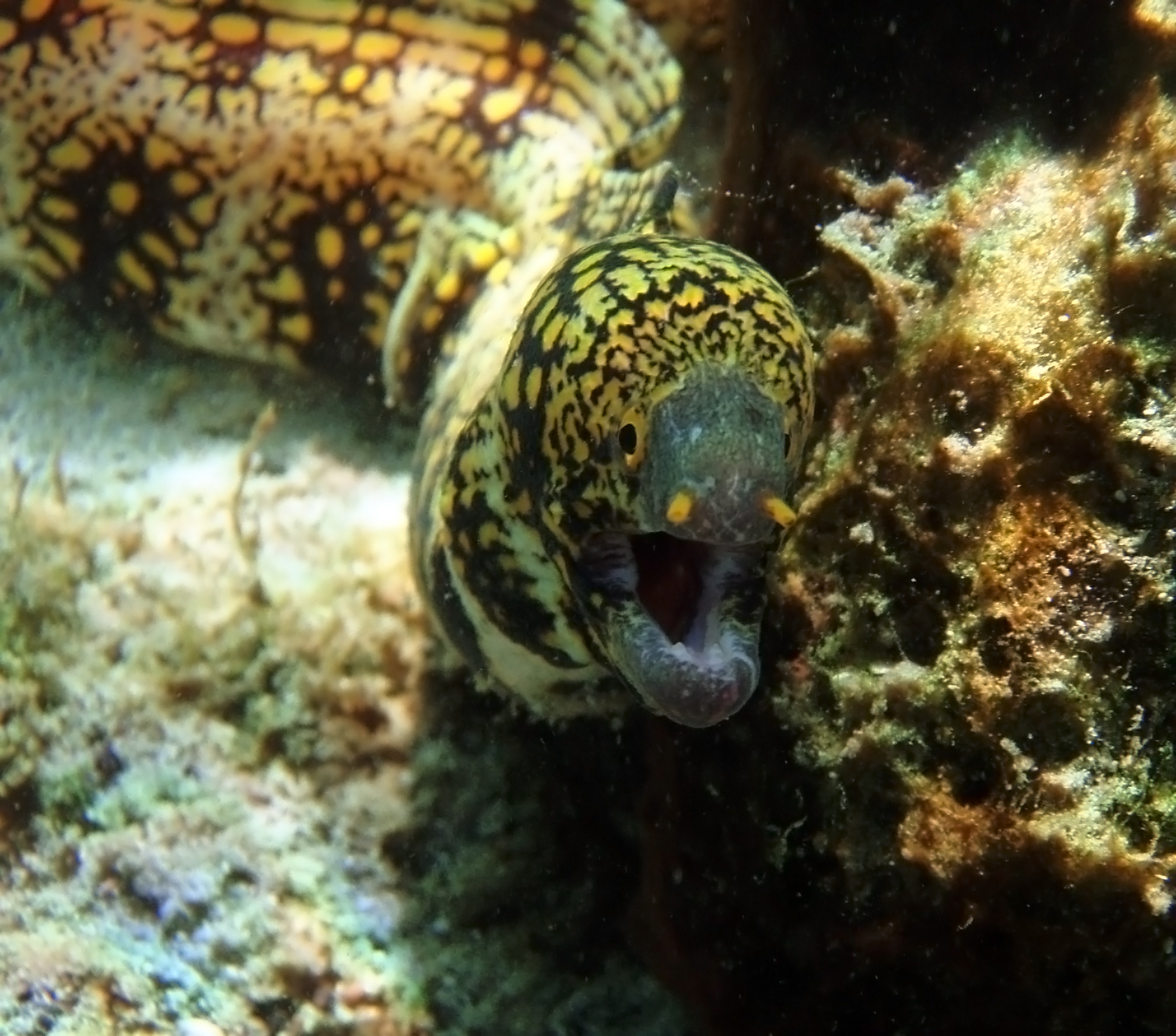 Snowflake moray, Echidna nebulosa in Kona, Big Island of Hawaii